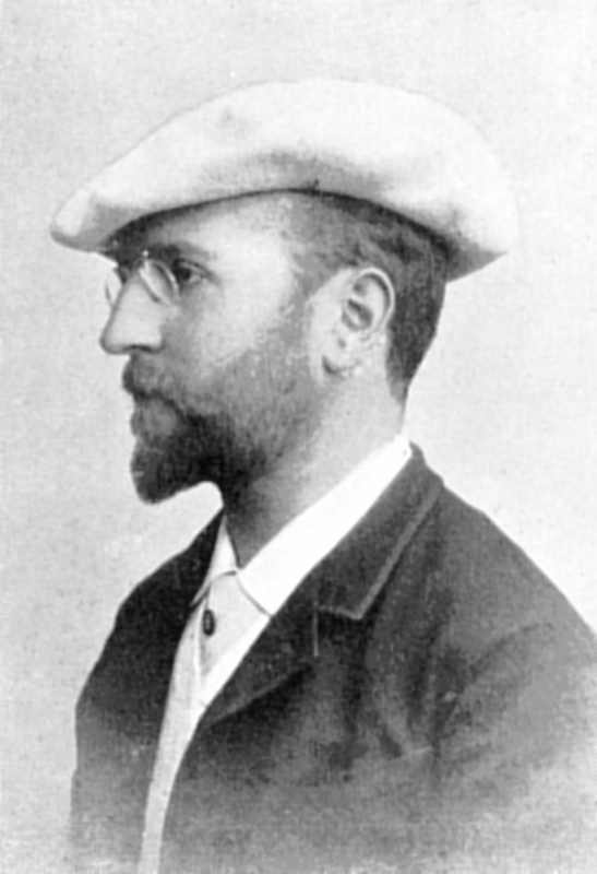 Portrait of the as Louis Eugène Albert Chevreux born Esperantist and Idist